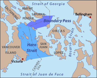 This is a locator map of Haro Strait and Boundary Pass. I, Pfly, made it with ArcGIS, Adobe Illustrator, and Adobe Photoshop.